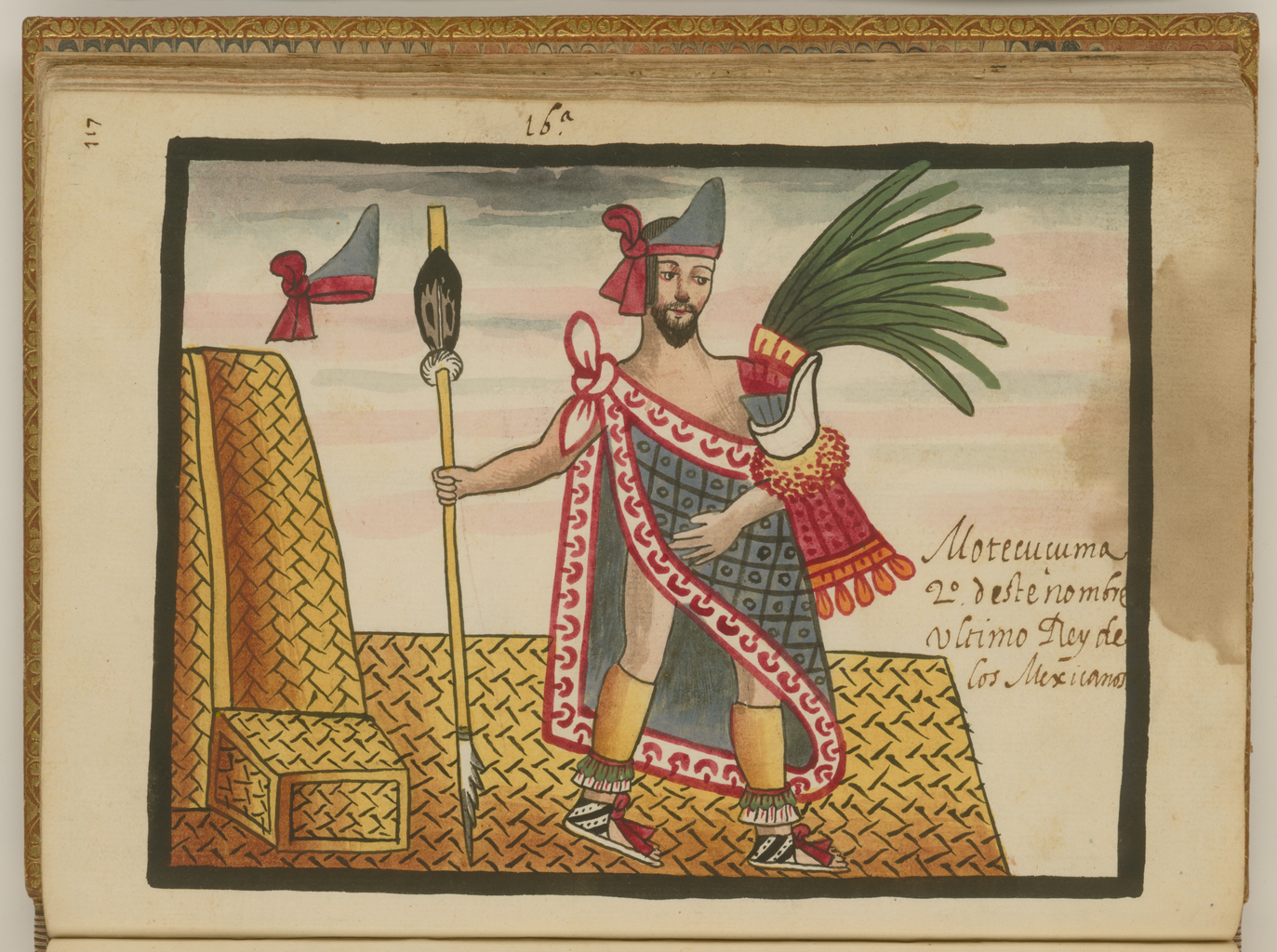 The Tovar Codex, attributed to the 16th-century Mexican Jesuit Juan de Tovar, contains detailed information about the rites and ceremonies of the Aztecs (also known as Mexica). The codex is illustrated with 51 full-page paintings in watercolor. Strongly influenced by pre-contact pictographic manuscripts, the paintings are of exceptional artistic quality. The manuscript is divided into three sections. The first section is a history of the travels of the Aztecs prior to the arrival of the Spanish. The second section, an illustrated history of the Aztecs, forms the main body of the manuscript. The third section contains the Tovar calendar. This illustration, from the second section, depicts Moctezuma II, holding a spear or scepter and standing on a reed mat and next to a basketwork throne, wearing a beard and an epaulette of quetzal feathers. Next to him is a crown. Moctezuma II (reigned 1502–20), whose surname was Xocoyotzin or “Bitter Lord,” was the ninth Aztec emperor, the son of Axayácatl and the great grandson of Moctezuma I (also seen as Montezuma I). He surrendered to the Spanish in 1520. The crown is a sign of Moctezuma's sovereignty. Aztecs; Codex; Indians of Mexico; Indigenous peoples; Kings and rulers; Mesoamerica; Montezuma II, Emperor of Mexico, circa 1480-1520; Tovar Codex